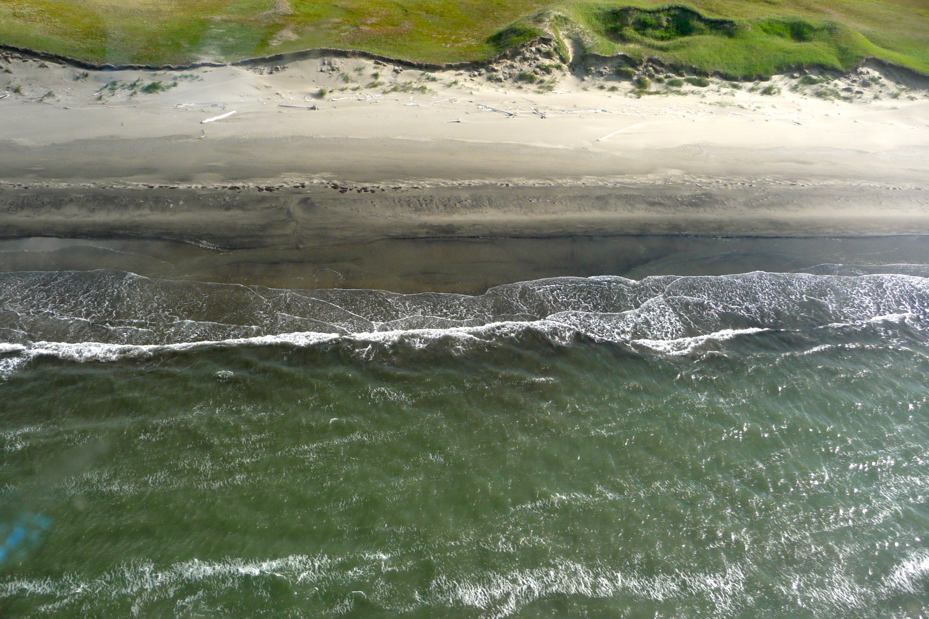 Waves from the Shallow Bering Sea Lap up Against the Untouched Coastline of Cape Espenberg